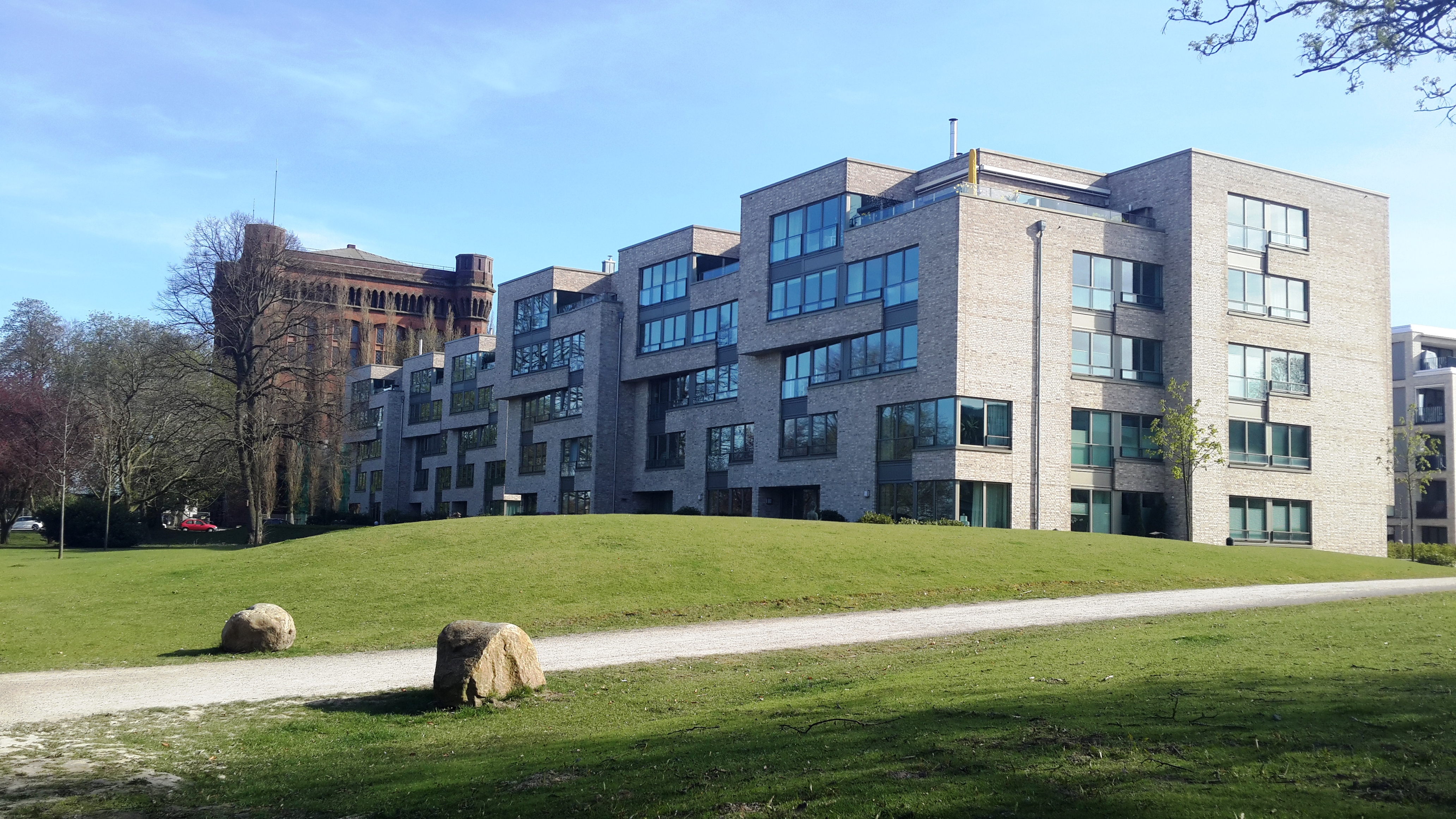 Umgedrehte Kommode